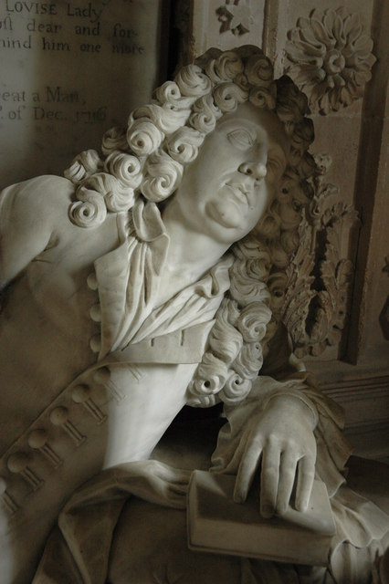 Monument to Sir Robert Atkyns, Sapperton Church Recling effigy at Sir Robert Atkyns in the south transept Sapperton church, he died in 1711 and the monument is thought to be by Edward Stanton.